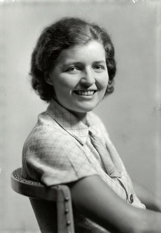 Ann Scott-Moncrief, Scottish author